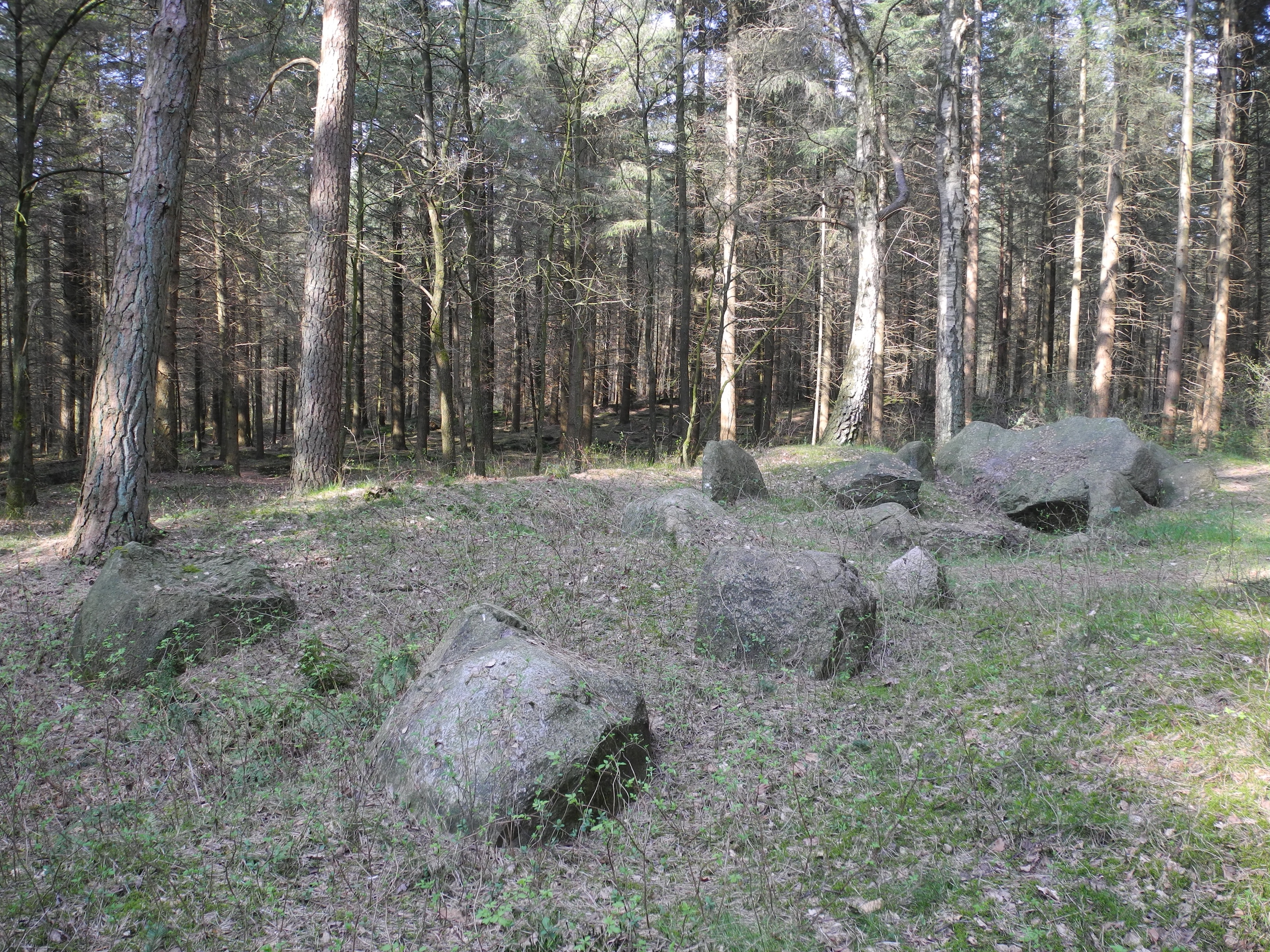 Megalithic tomb "Grumfeld Ost" (Westerholte, district Osnabrück, Lower Saxony, Germany).